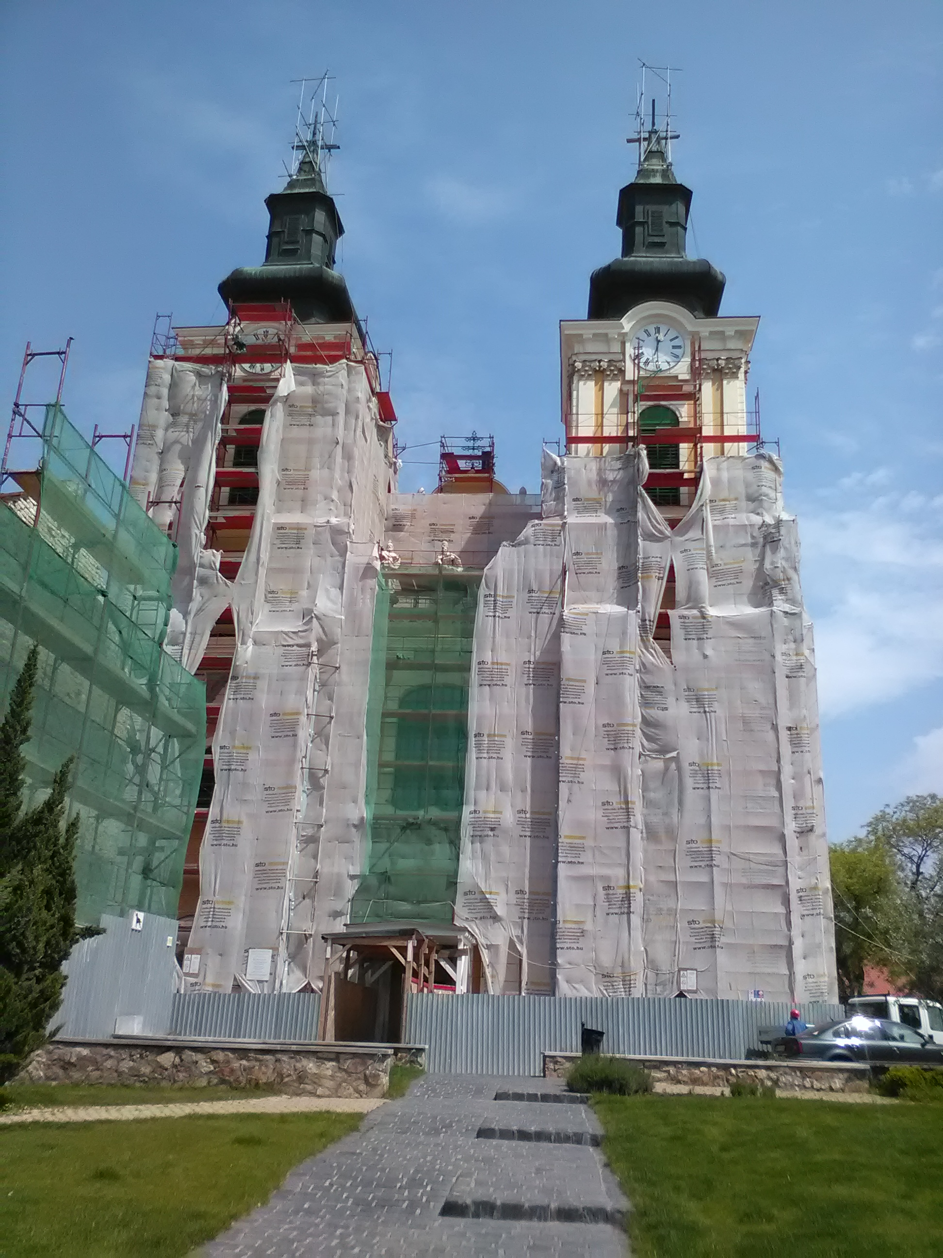 St. Stephen's Basilisa in resteration (Székesfehérvár, Hungary)